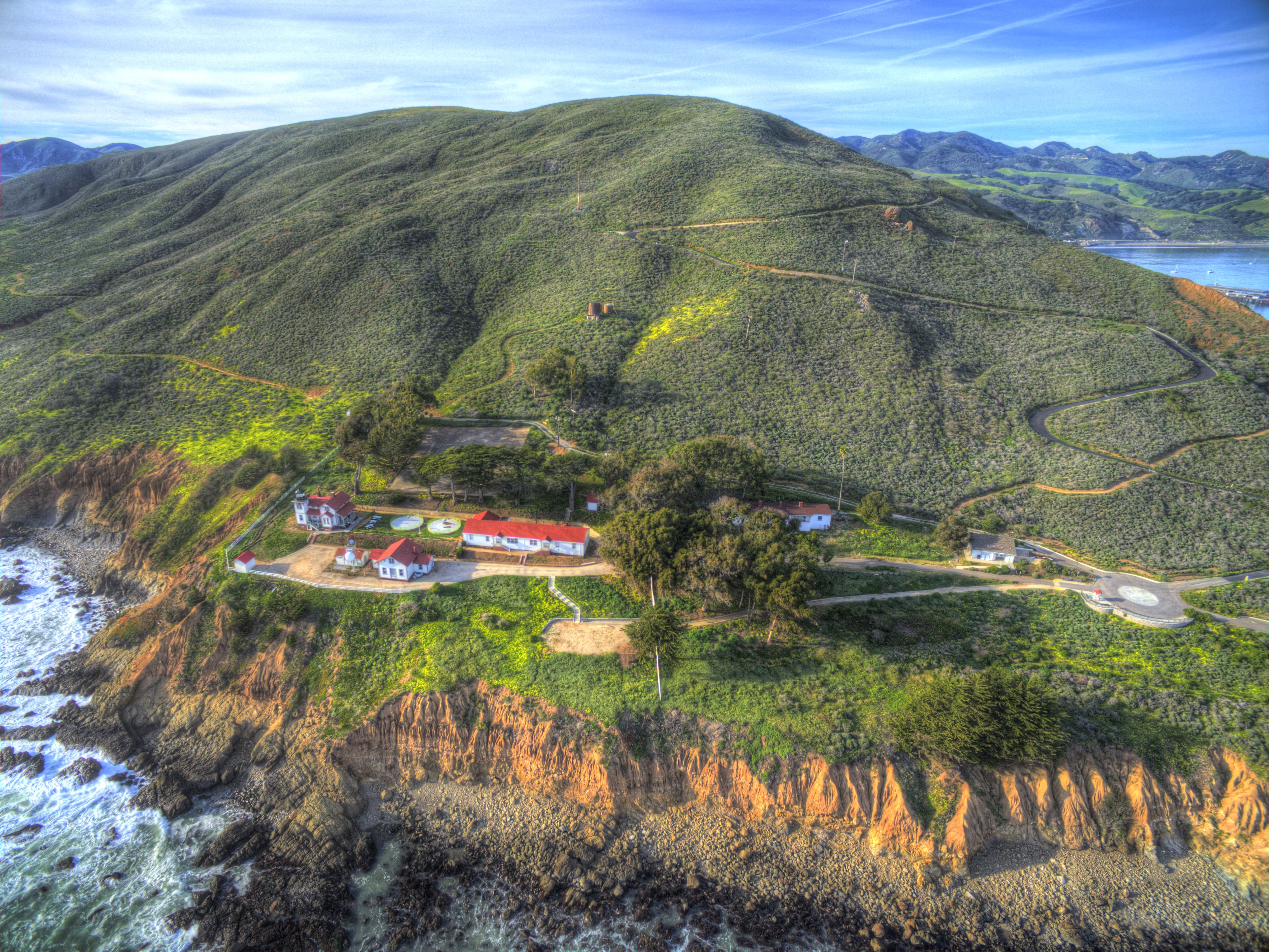 San Luis Obispo Lighthouse in March 2016 to the very left. To the upper right, Port Harford.